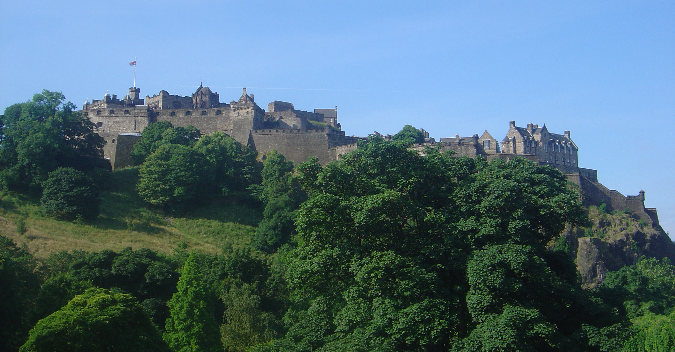 Edinburgh Castle from Princes Street